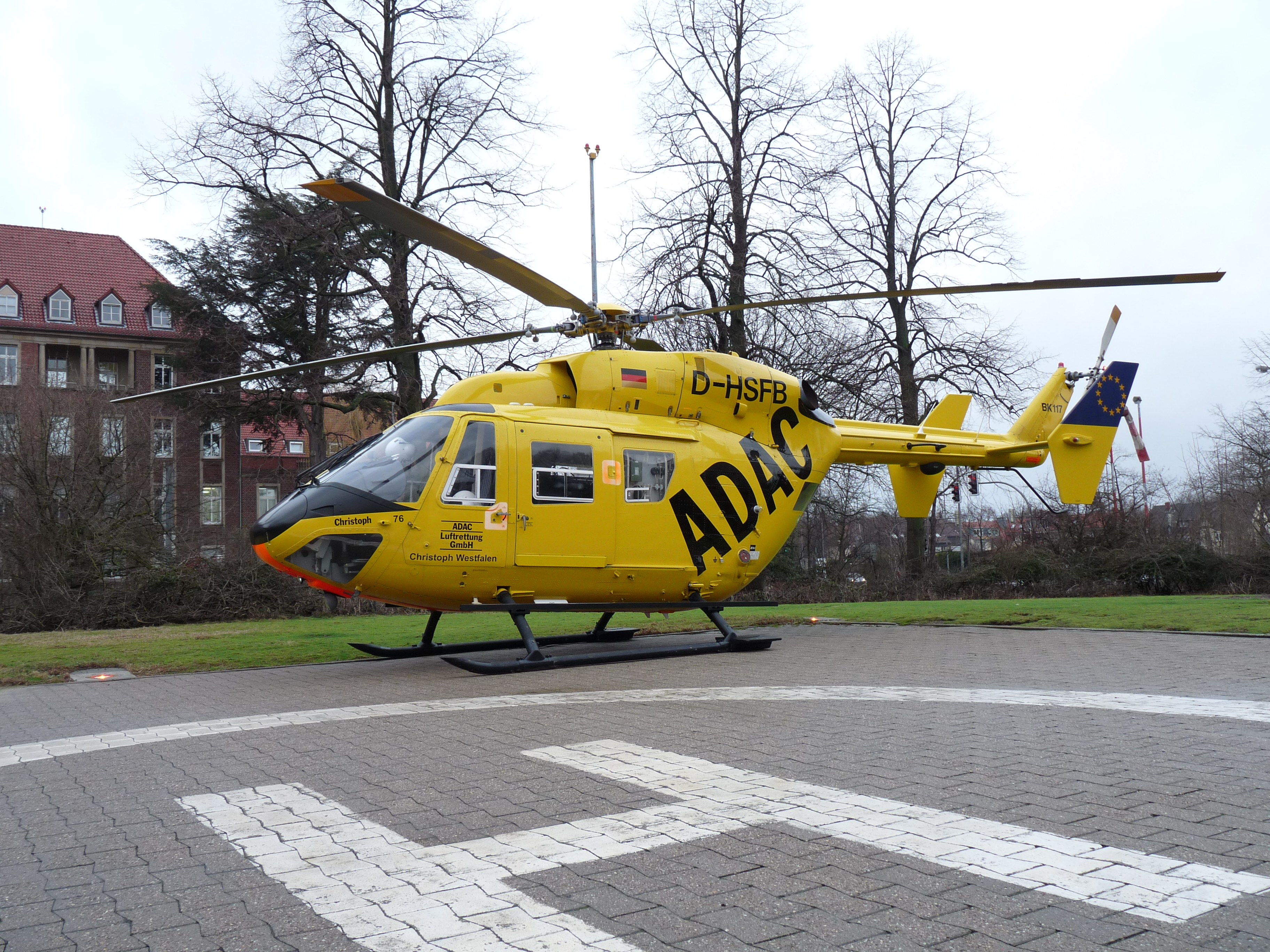 Intensive care transport helicopter Christoph Westfalen 76 (D-HSFB) of type BK 117